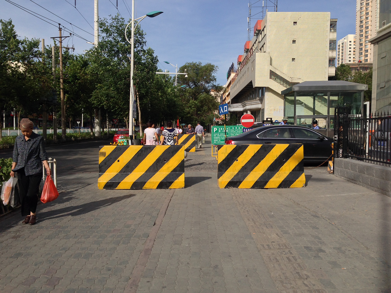 After market blast, Urumqi enhanced secure level, each school(including university), entrance of residential area, avenue, vital junction have been set up concrete barricades in order to defend similar dash attacks by vehicles. The image shows many concrete barricades on Henan East Road in New Downtown in Urumqi.